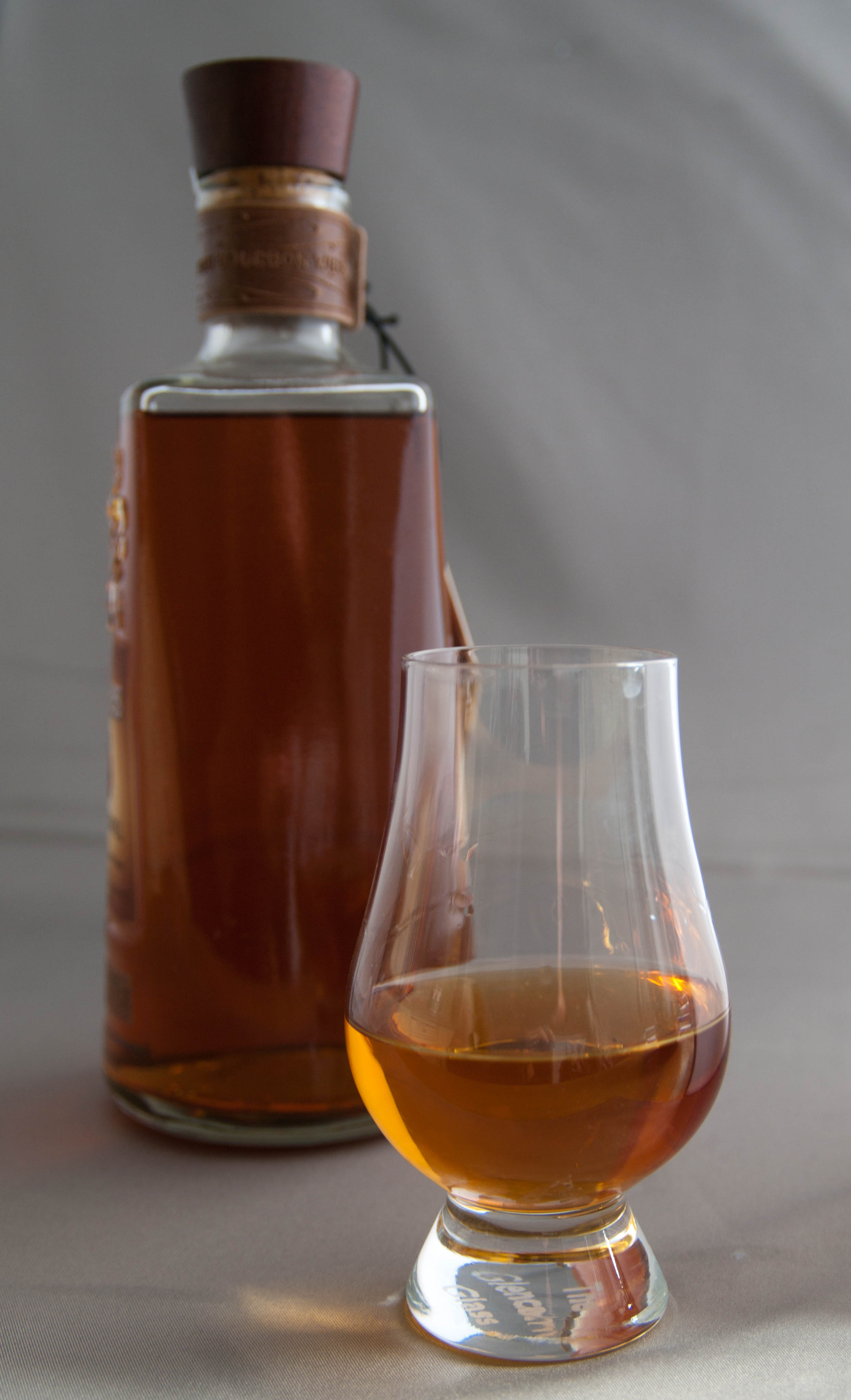 Glass and bottle of Bourbon whiskey